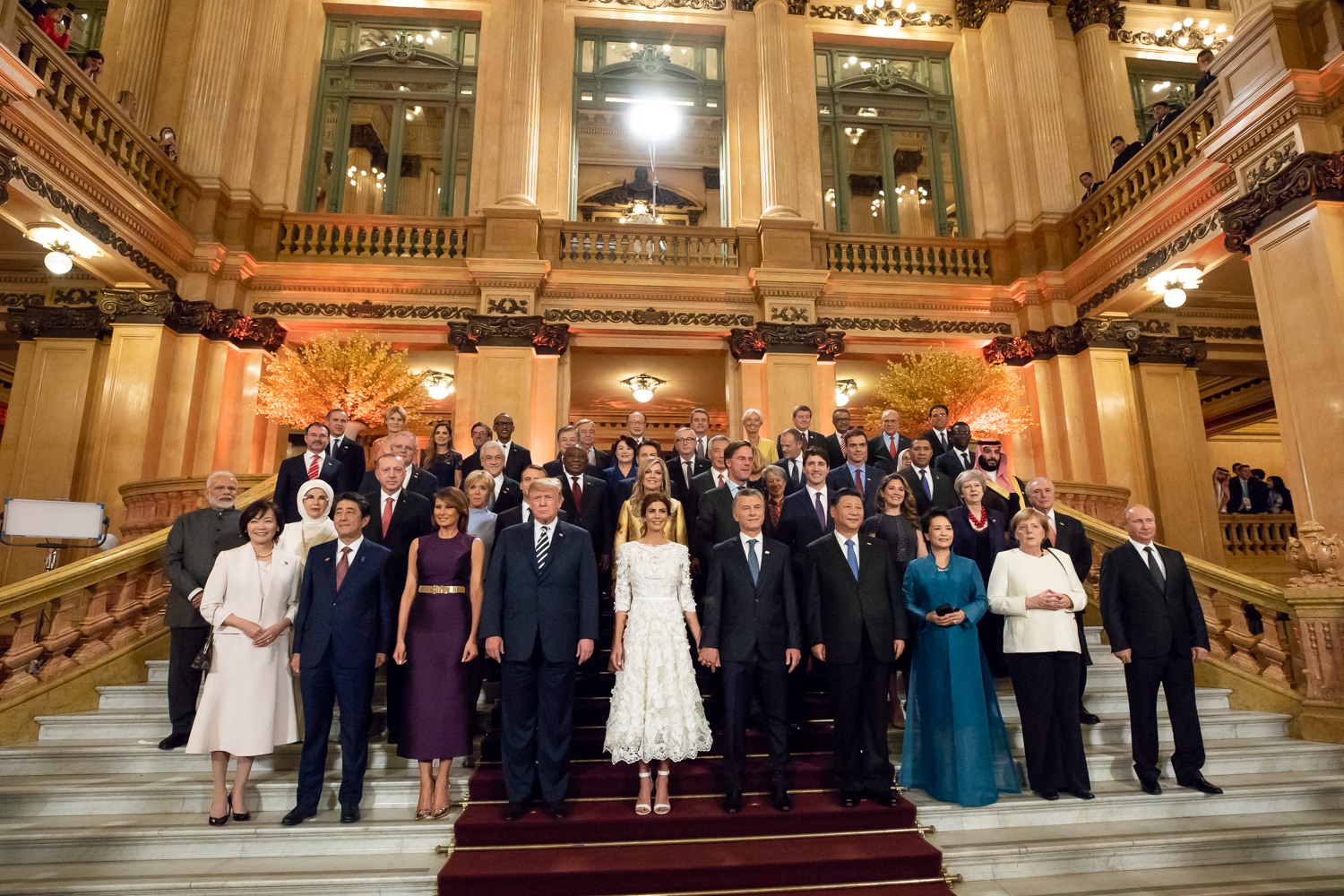 The G20 "Family Photo" with G20 leaders and their spouses on Friday evening, Nov. 30, 2018, at the Teatro Colon in Buenos Aires, Argentina.